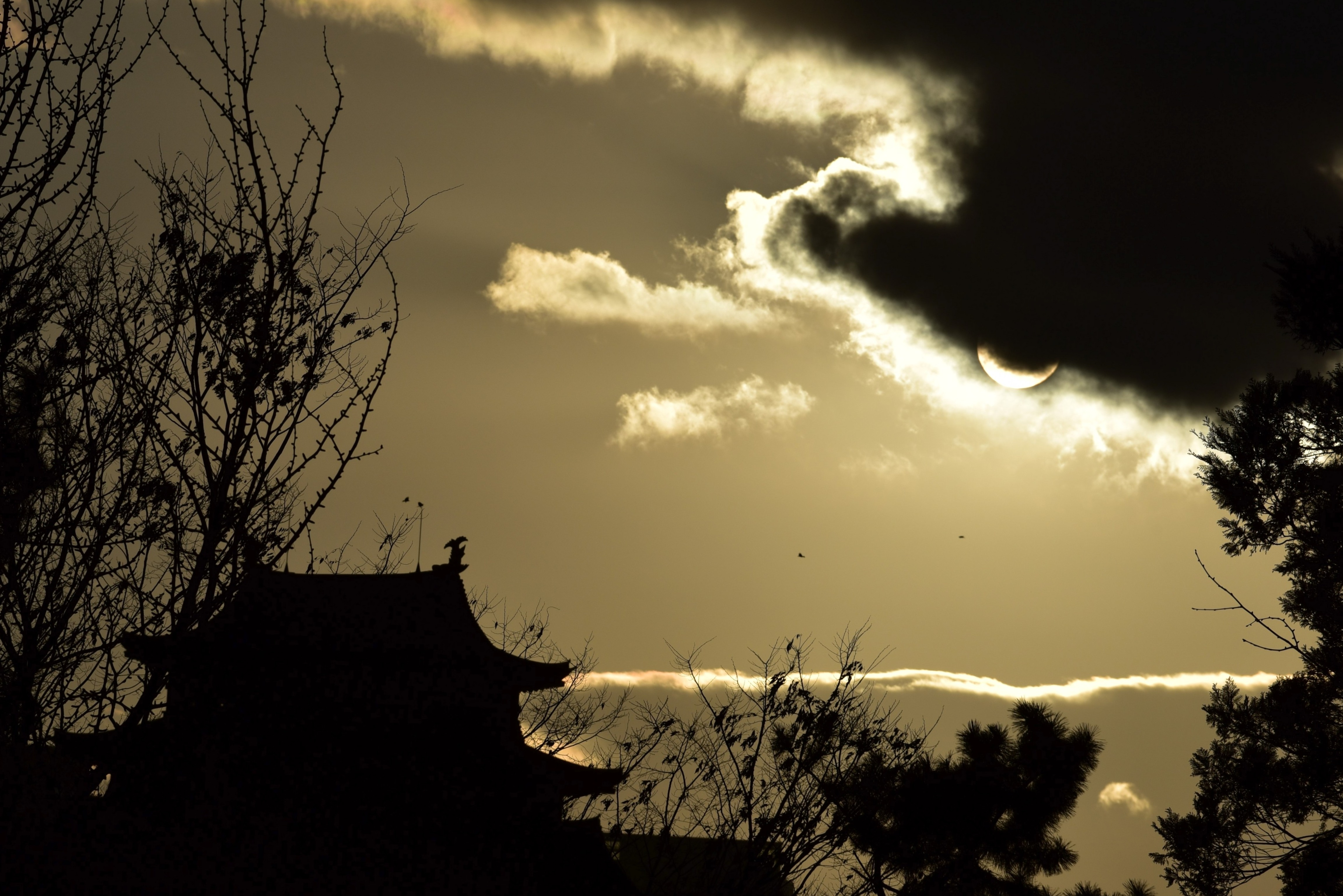 Nagoya castle with Moonlight through clouds, full moon of January 2018.